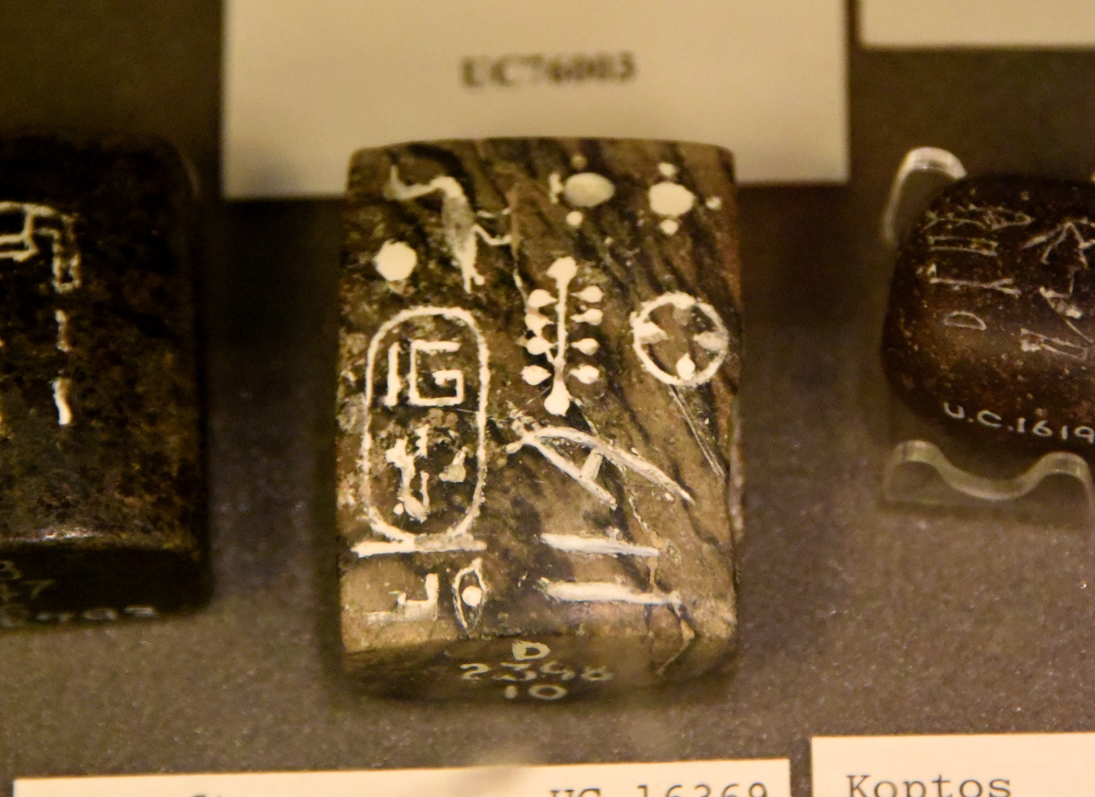 Serpentine weight of 10 daric. Inscribed for Taharqa in the midst of Sais. 25th Dynasty. From Egypt, probably from Nesaft. The Petrie Museum of Egyptian Archaeology, London. With thanks to the Petrie Museum of Egyptian Archaeology, UCL.